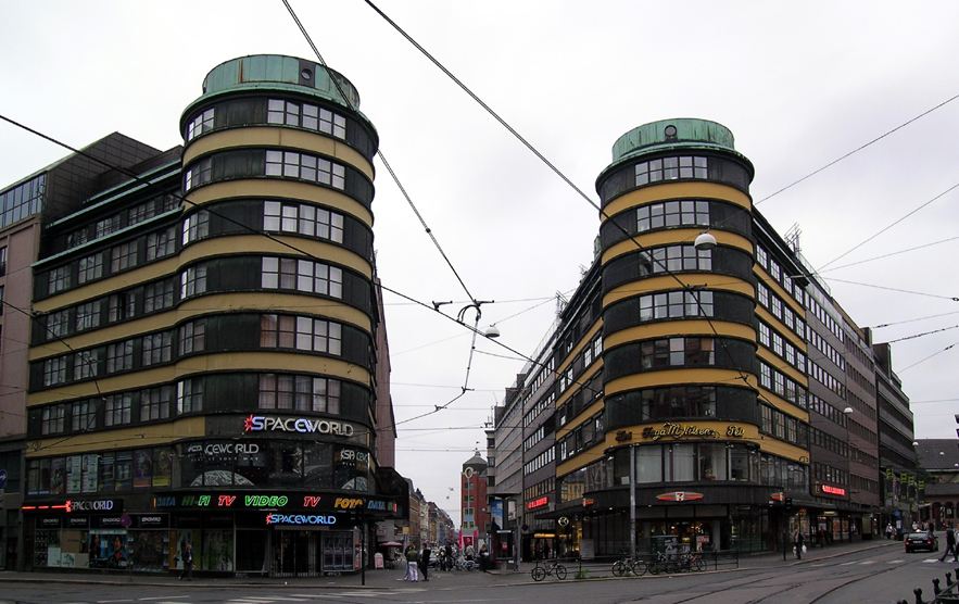 Storgata 10a and 12, Oslo, Norway. Built 1933/34. Architect: Ole Sverre.